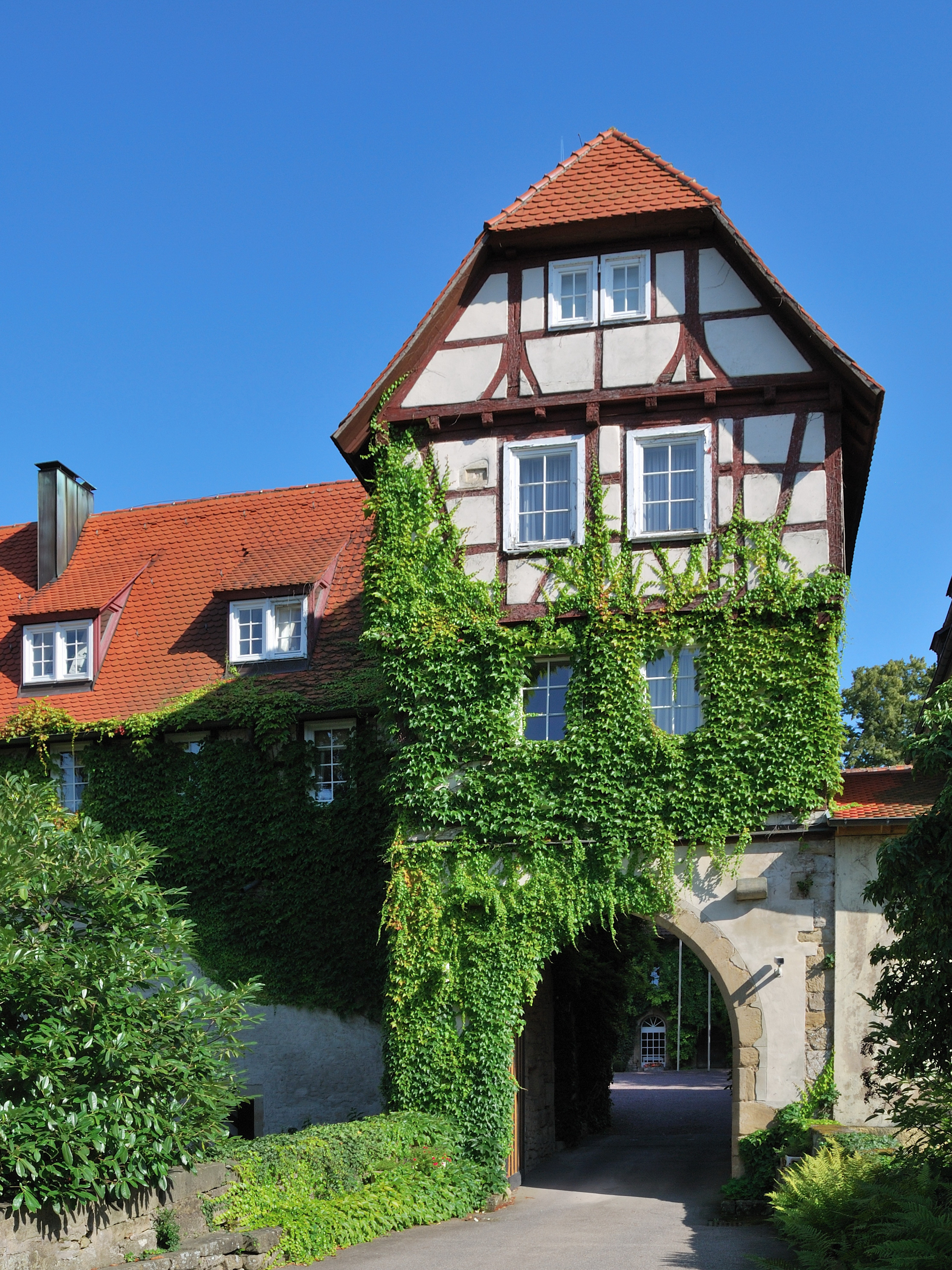 The castle of Schöckingen in Baden-Württemberg in Germany, originally from the 15th to 18th century. The castle was rebuilt in 1760. It is today in private hands.